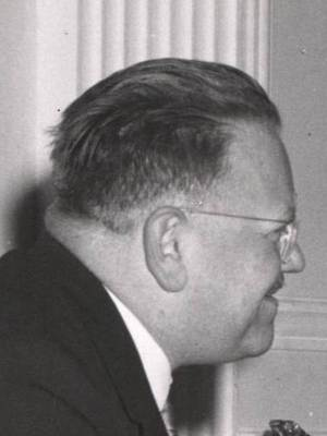 Karl Braunias was a Austrian diplomat Srpski (latinica): Karl Braunias je austrijski diplomata